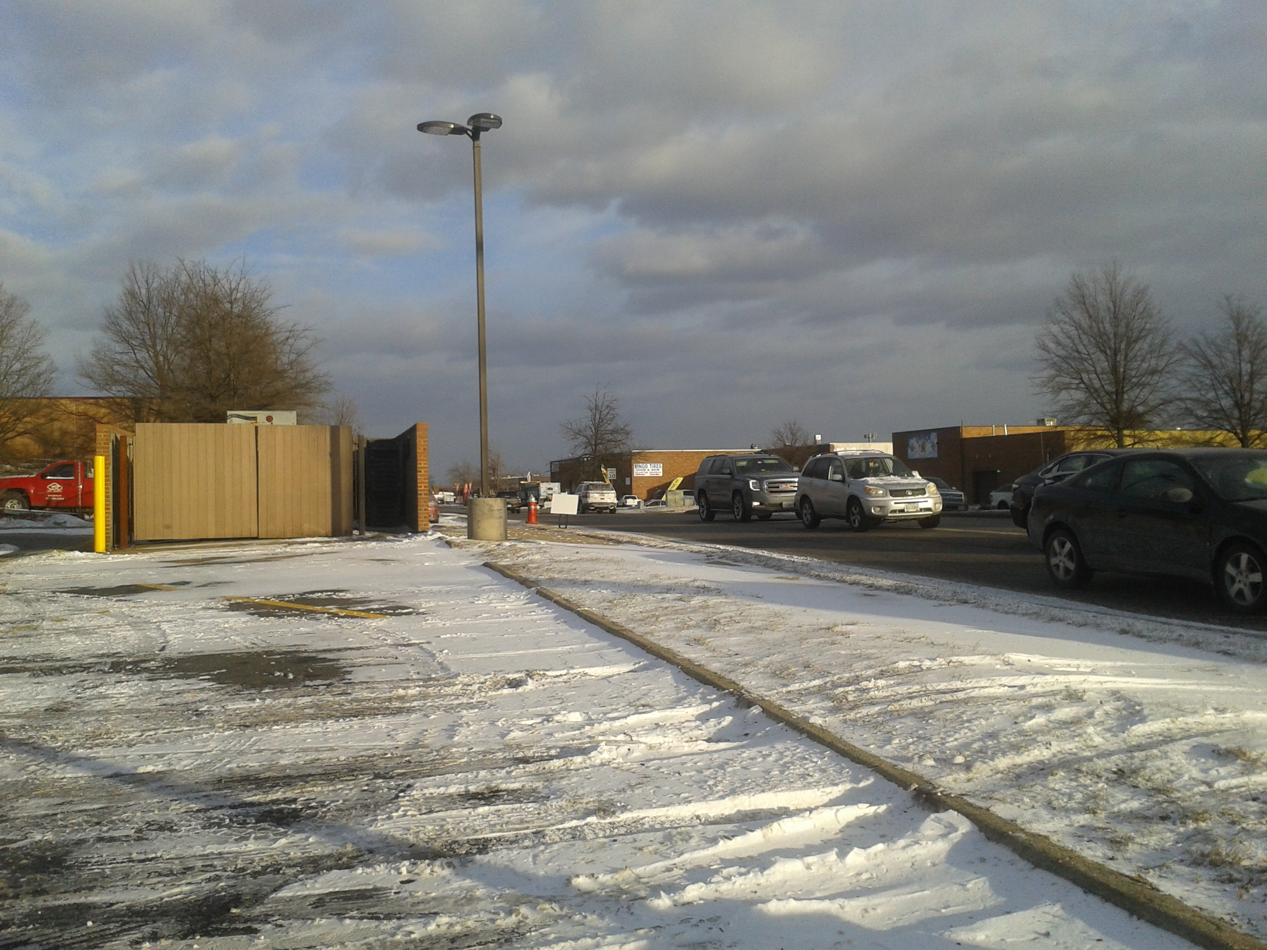 Aftermath of the early January 2018 blizzard in Newington, Fairfax County, Virginia